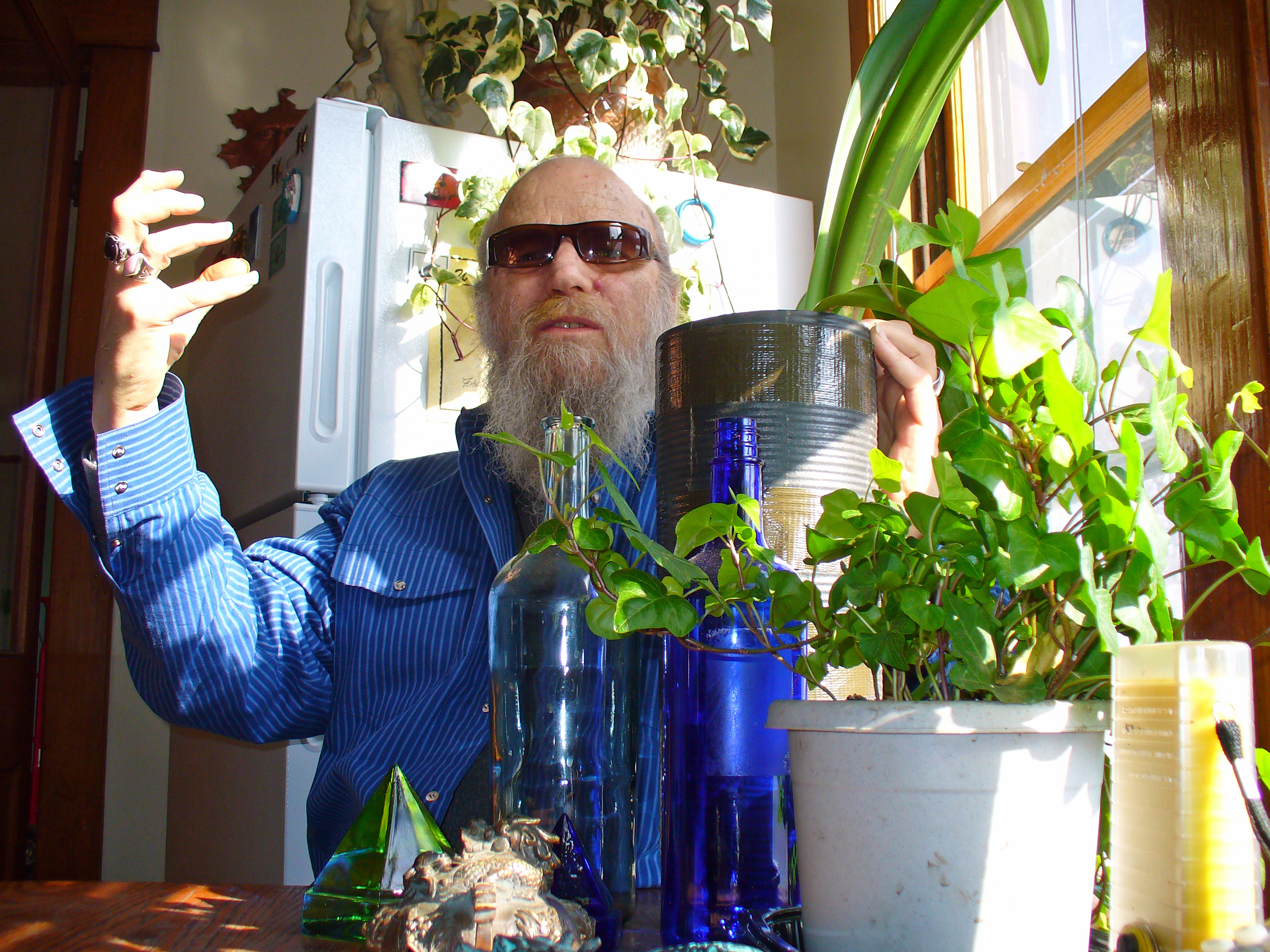 Billy Name (Greenman)